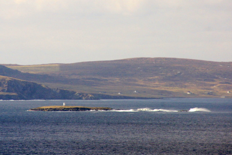 Little Holm, Yell Sound Topped by one of the many beacons on the route into Sullom Voe Terminal.